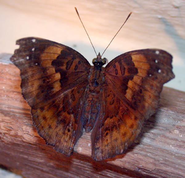 photographed at phansad wls. maharashtra.